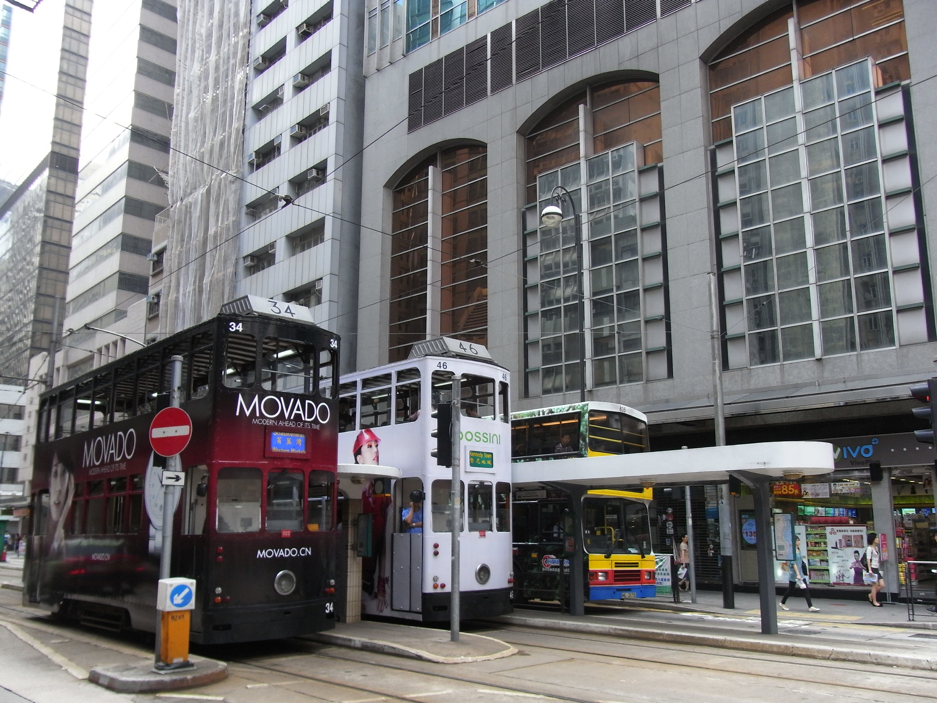 香港島 上環 德輔道中 上環電車總站, Sheung Wan Tram Station, Des Voeux Road Central, Sheung Wan, Hong Kong